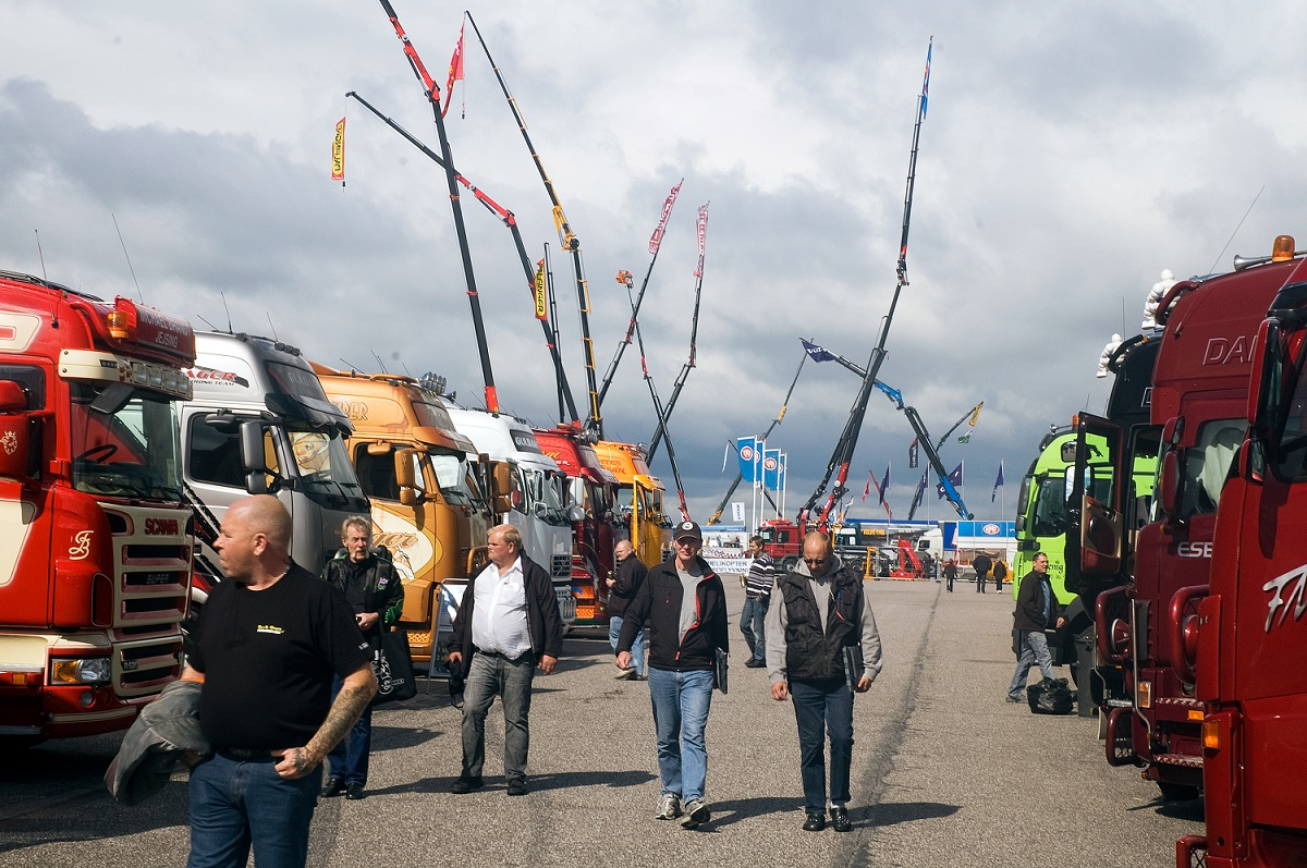 Lastbil Show 2010